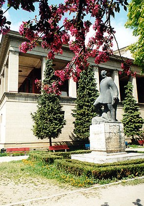 Statue from Andrei Mureseanu in Braşov